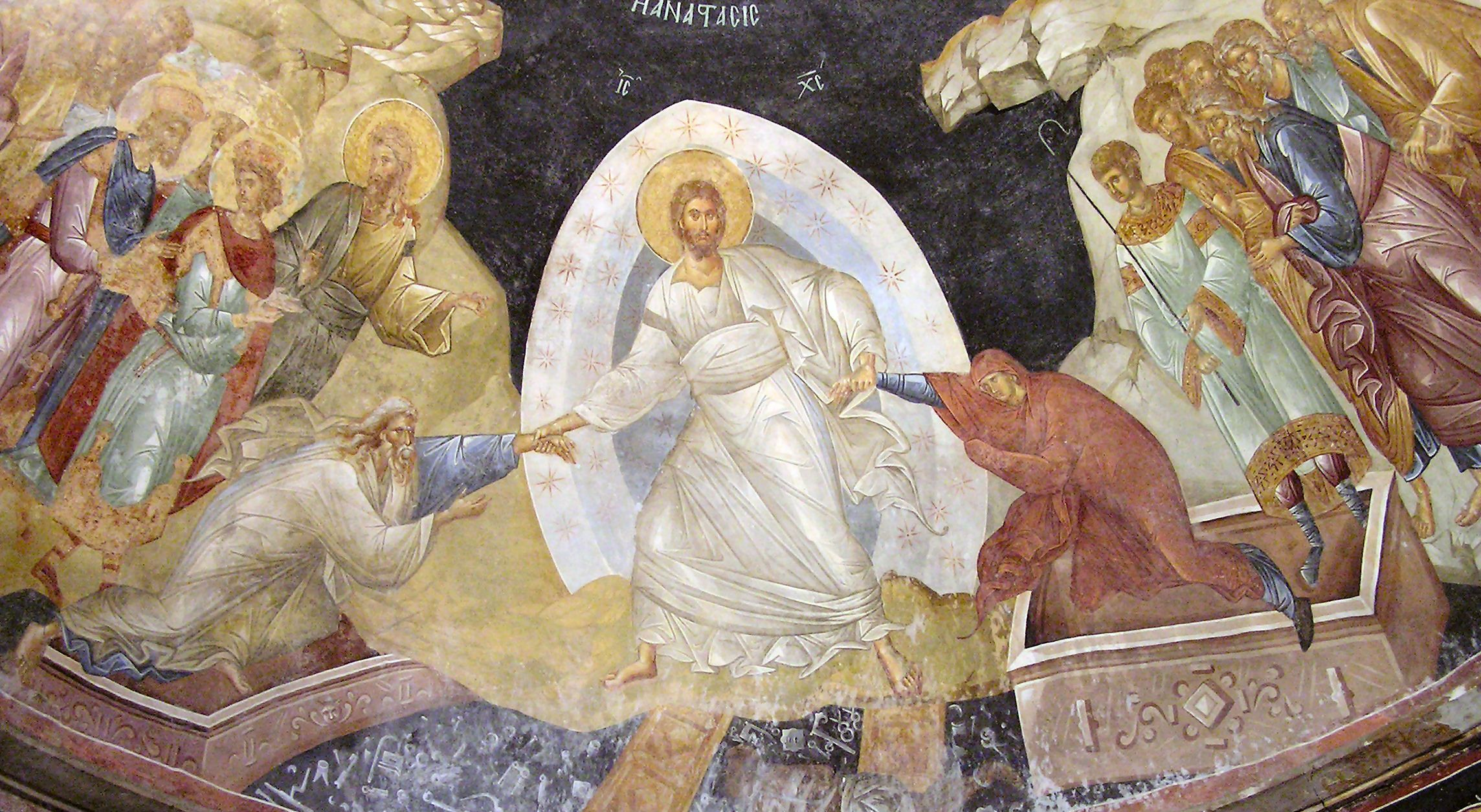 Chora Church/Museum, Istanbul,fresco,Anastasis, Harrowing of Hell and Resurrection